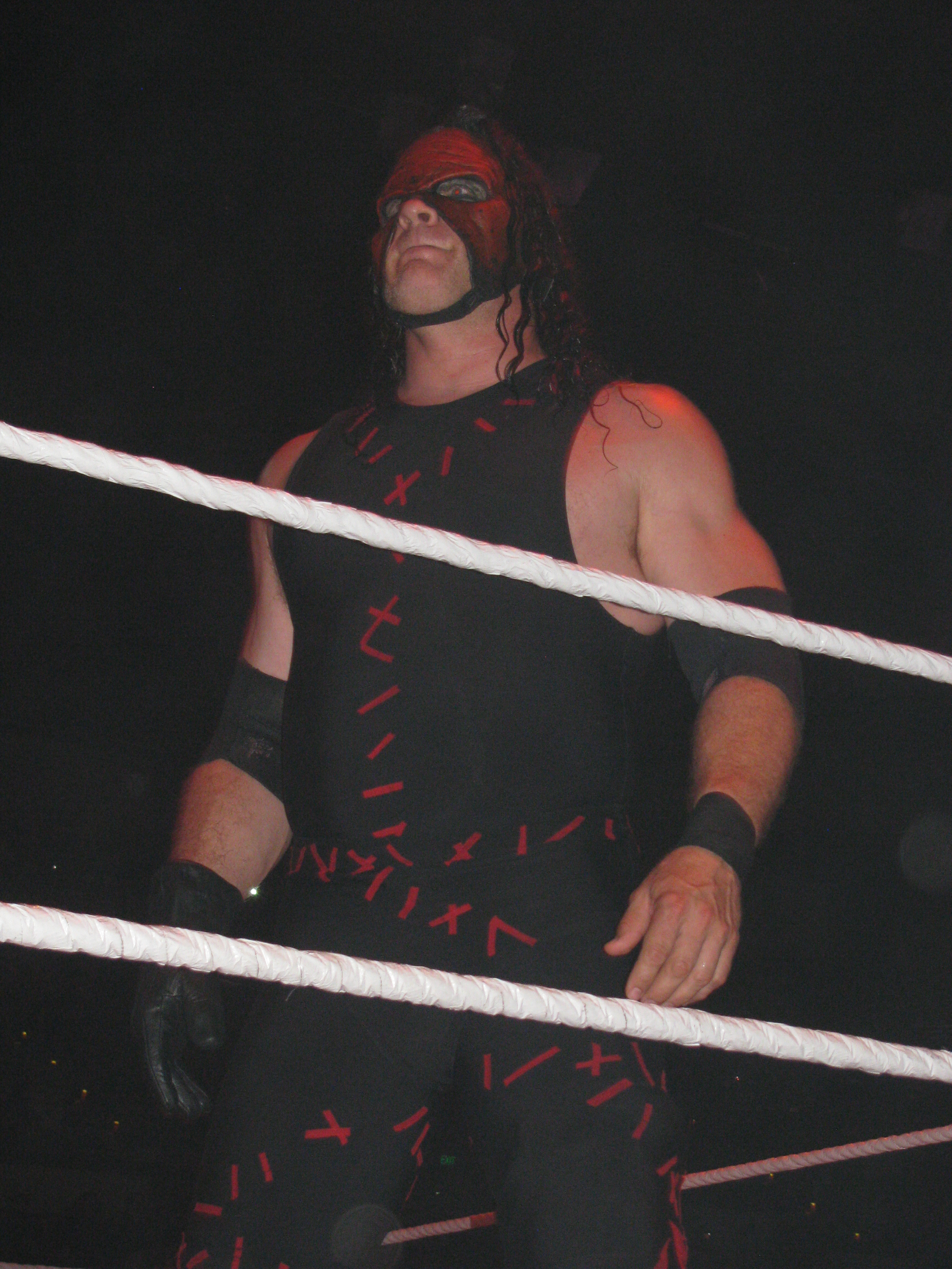 Kane @ Adelaide, South Australia WWE house show on the 29th of July '13